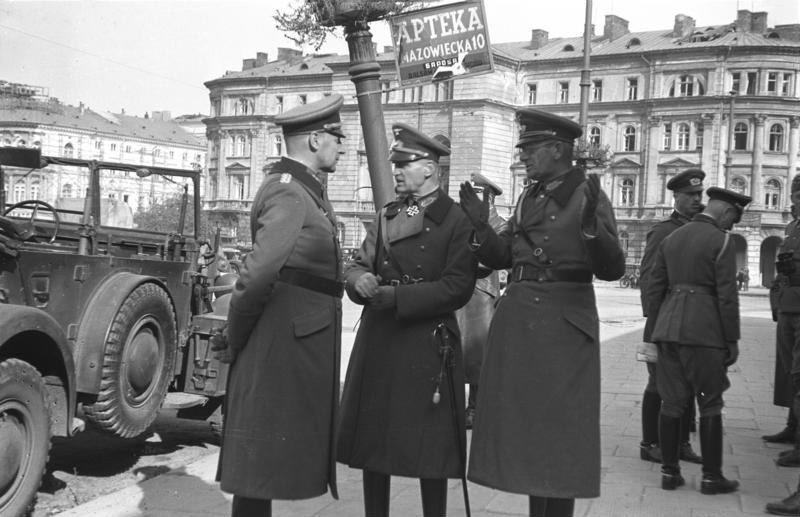 Warsaw during World War II